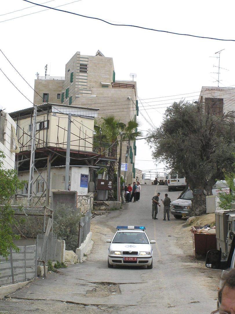 Hebron Tel Rumeida ou Admoth Ychaï .